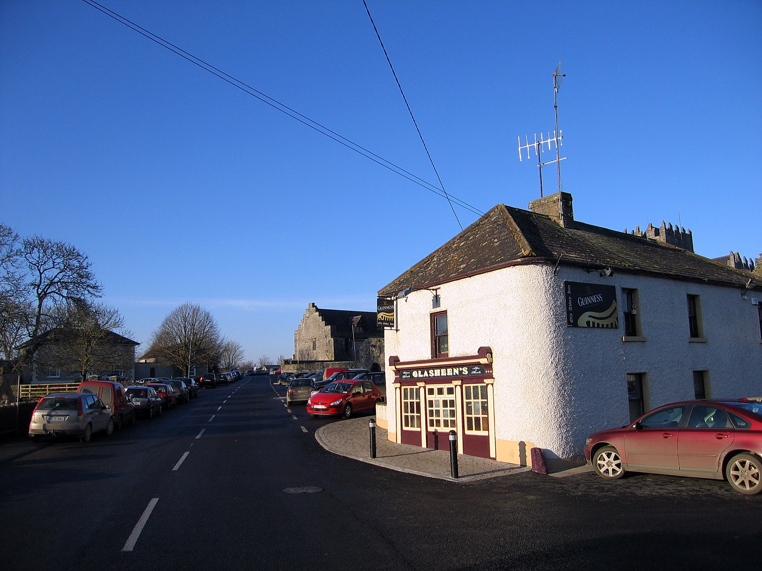 Holycross, Co Tipperary (Sarah777 19:47, 23 December 2006 (UTC))